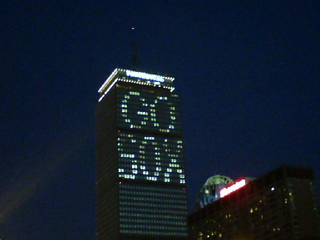 Prudential building lit up for the 2007 World Series.